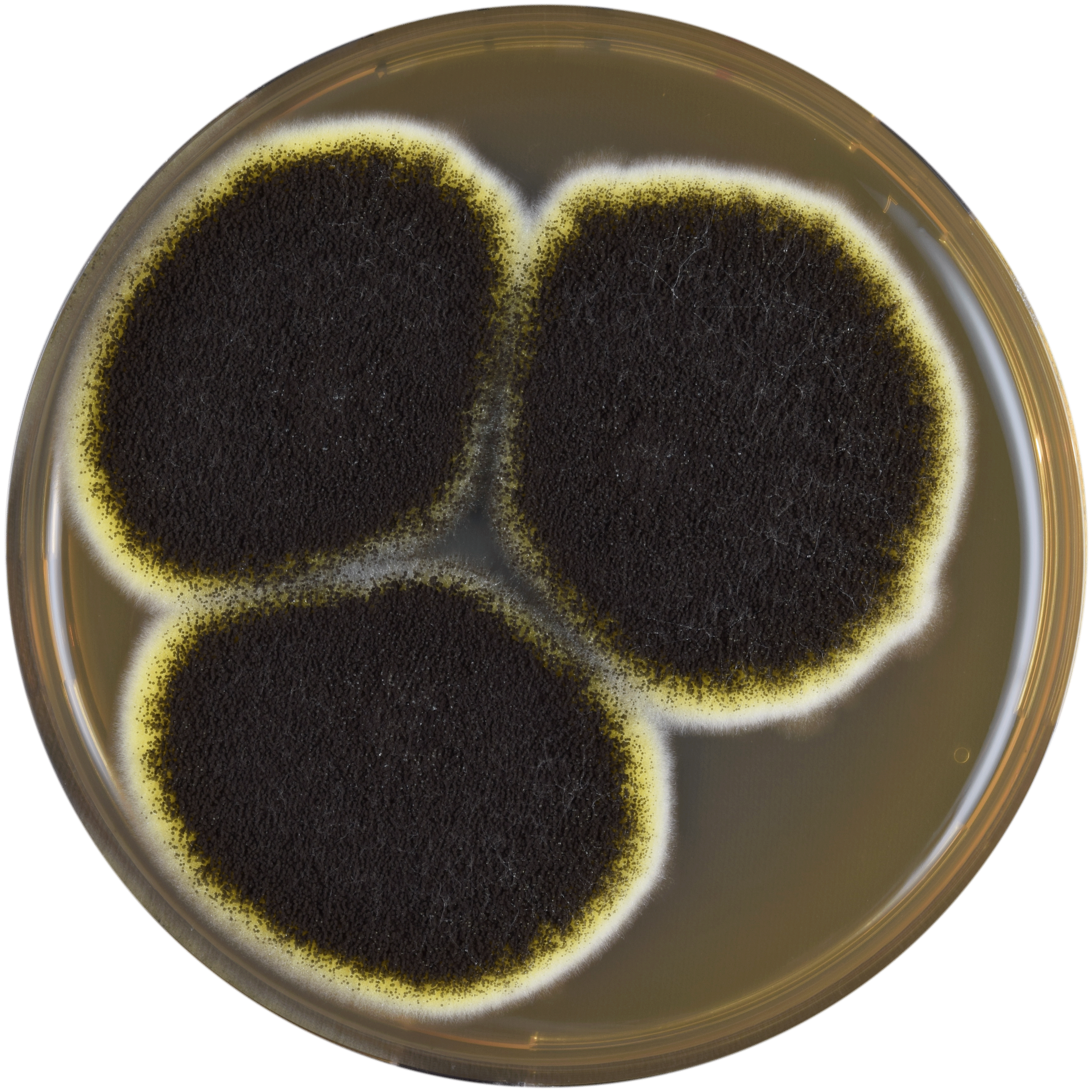 The picture is of the Aspergillus niger growing on meaox media.